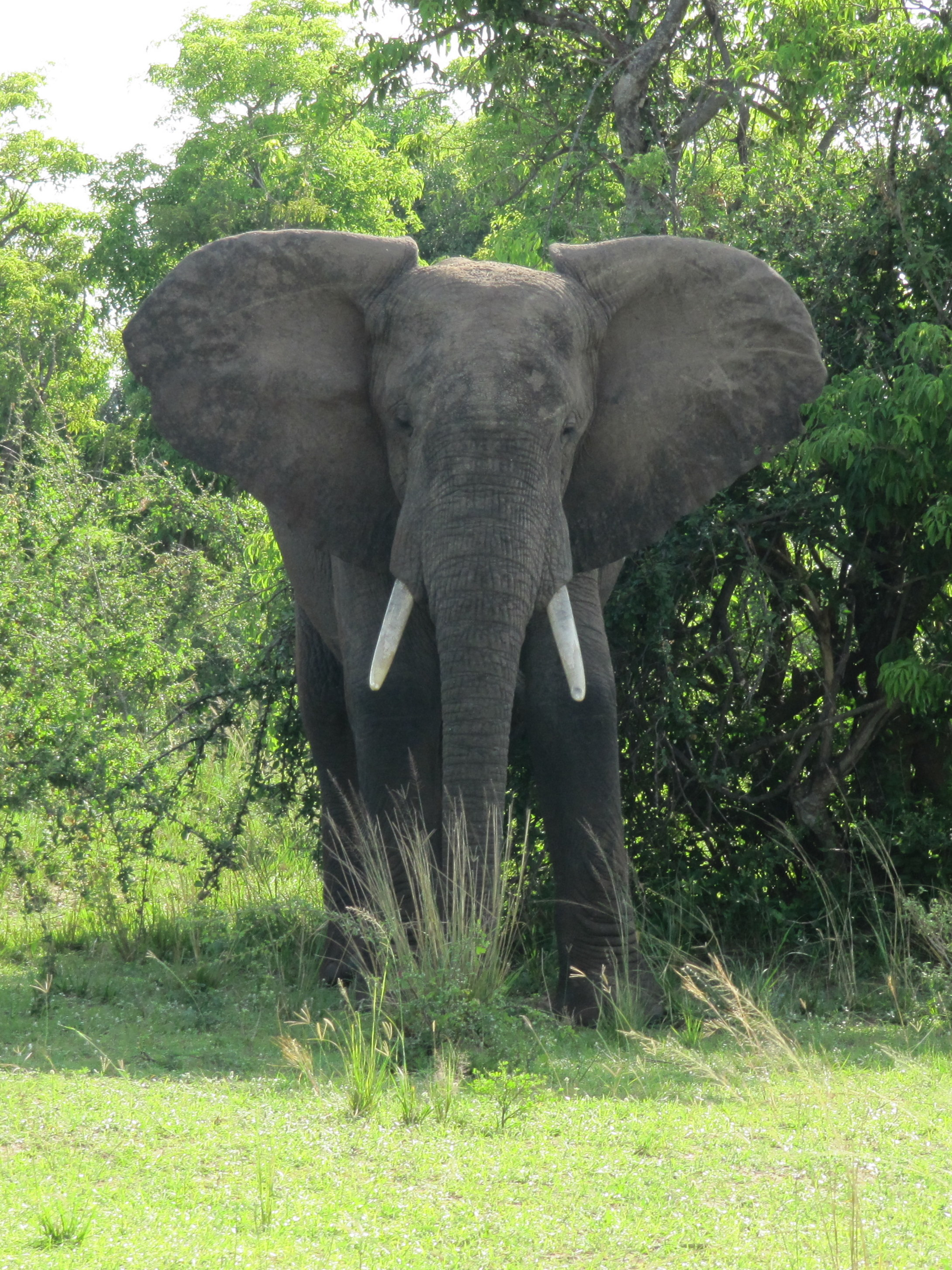 Elephant in Murchison Falls National Park